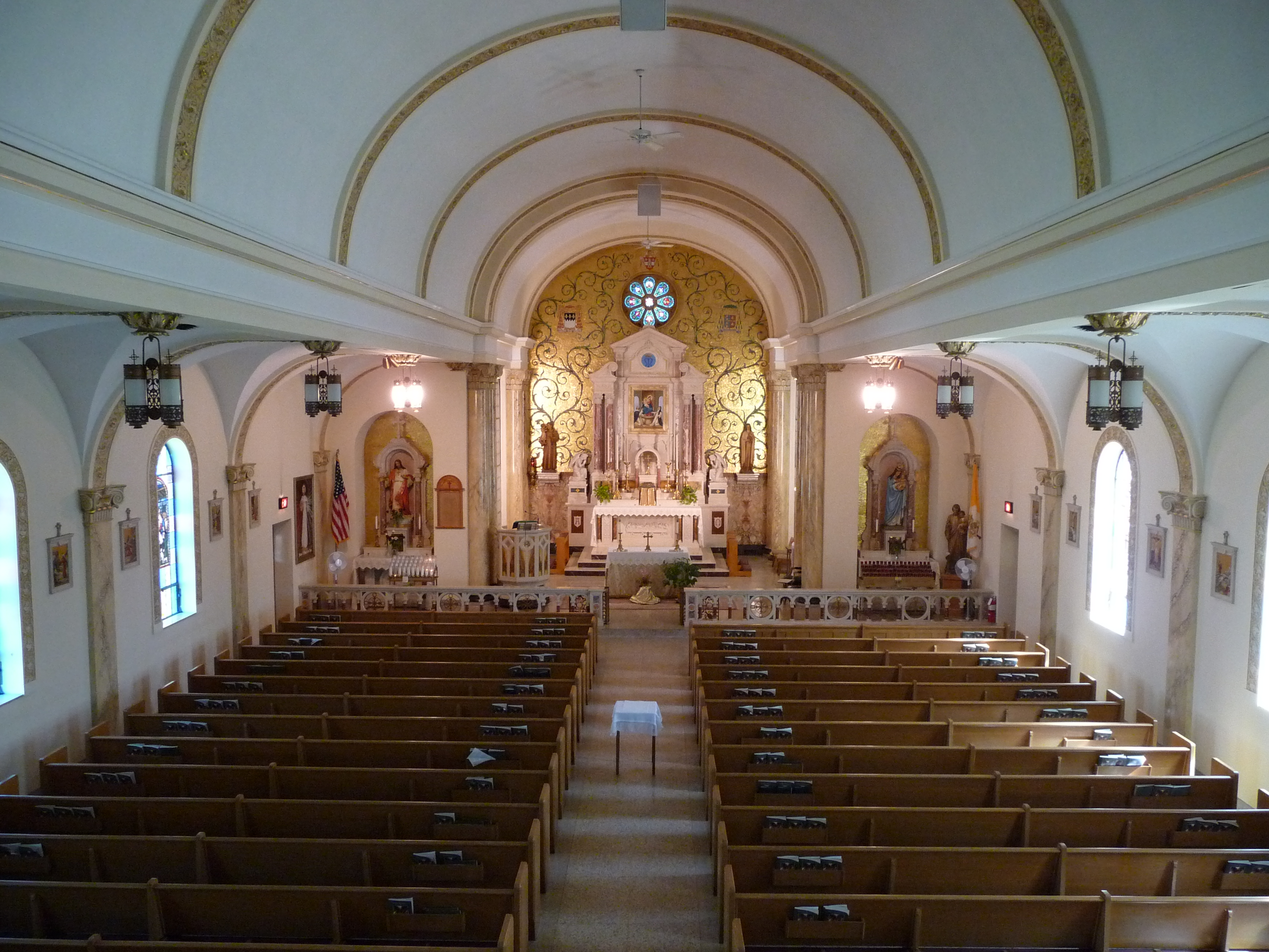 This photo was taken by Robert Lipka of the Queen of the Holy Rosary Shrine in July of 2009.